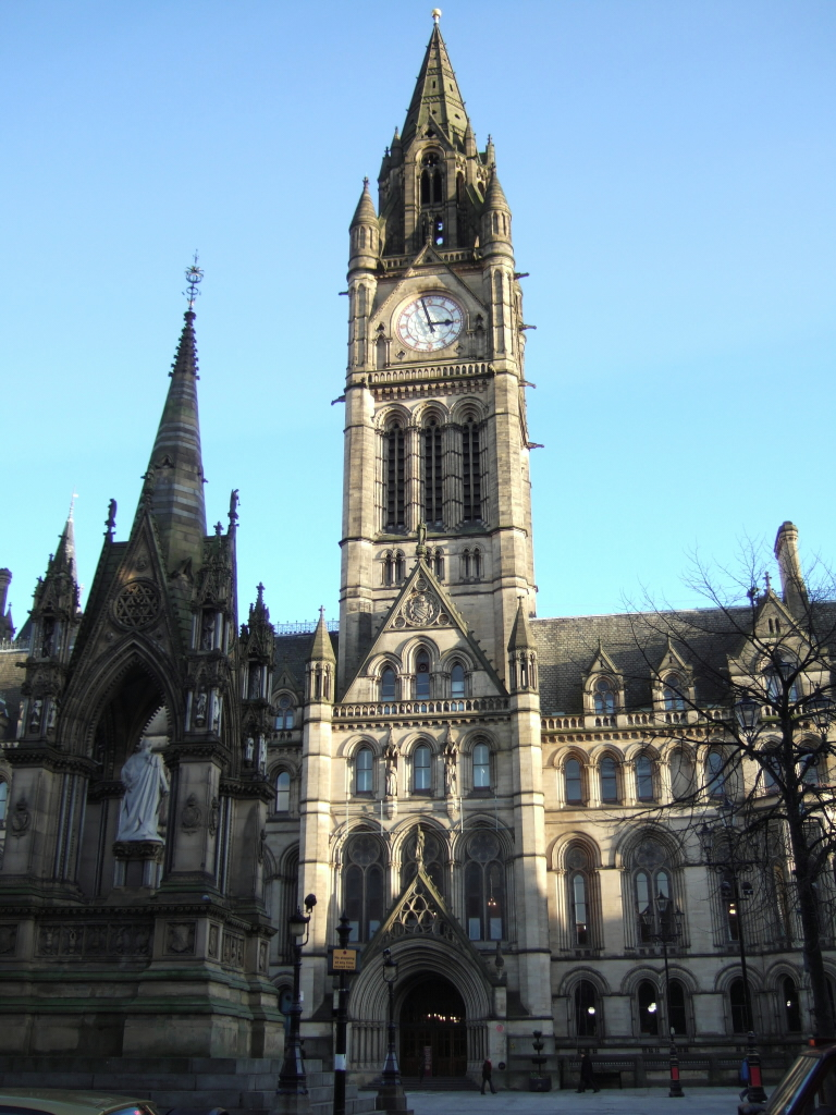 Manchester Town Hall (Manchester, England) - photograph of the main clock tower, taken in January en:2007 by David Jones.